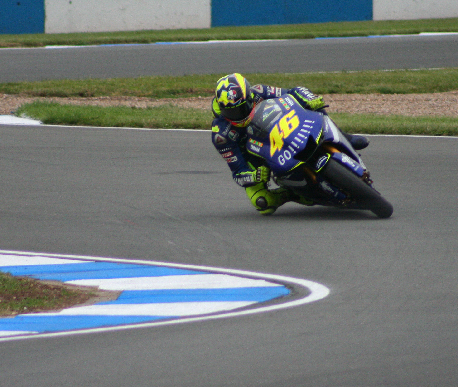 Valentino Rossi, riding his Gauloises Yamaha at the 2005 British Grand Prix in Donington Park.